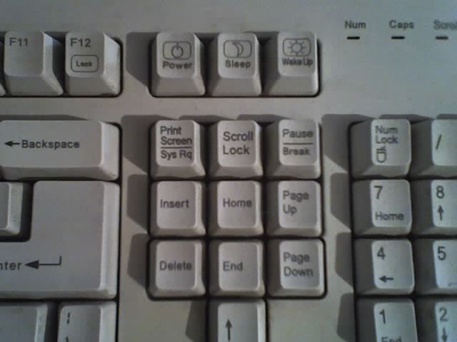 Picture of part of a computer keyboard, focusing on the power management keys.